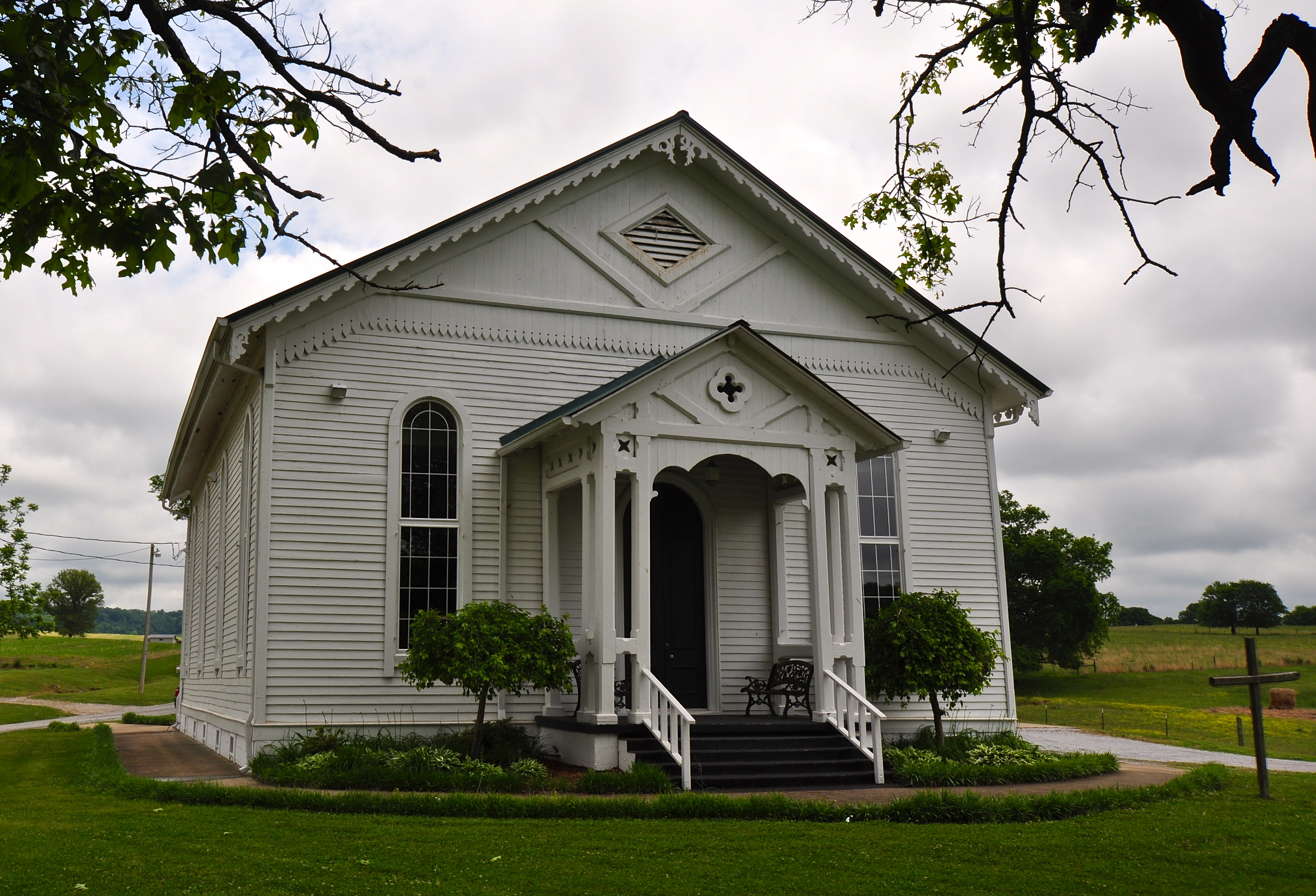 Located near Riversburg, Giles County, Tennessee. NRHP #84003538, listed July 19, 1984